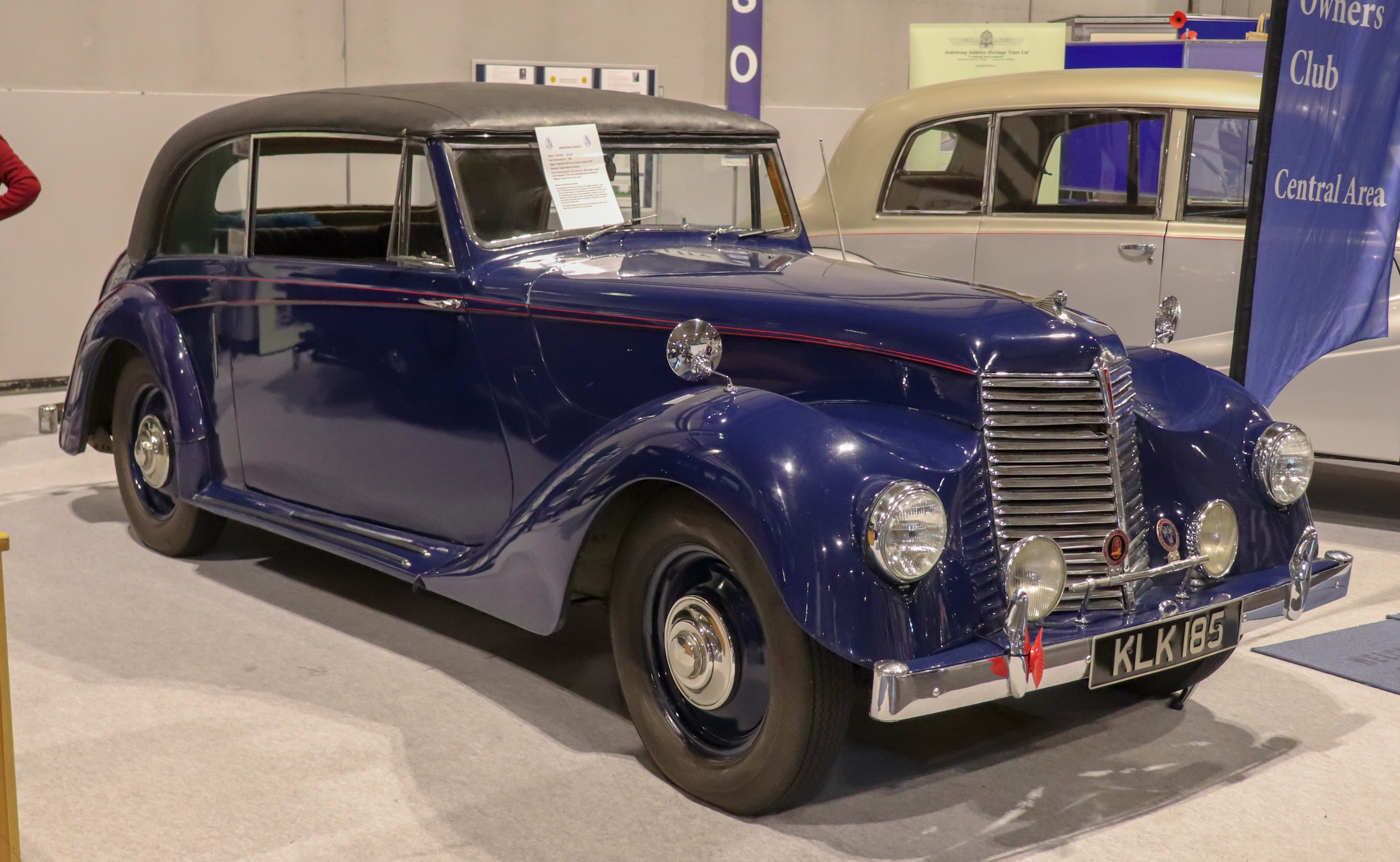 1949 Armstrong Siddeley Typhoon 2.3 Taken at the NEC Classic Motor Show 2018